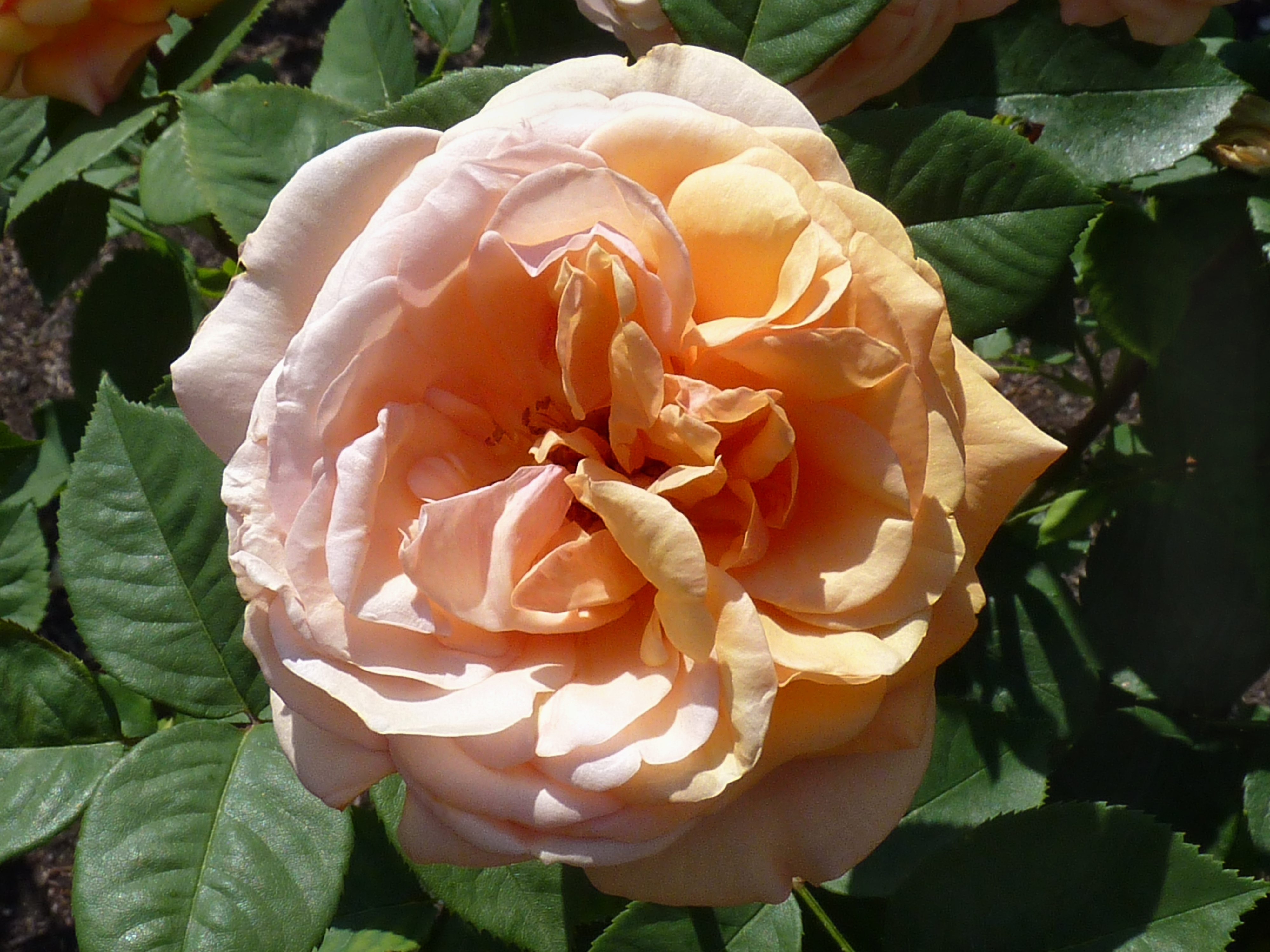 Rosa 'Leander' (David Austin, 1982), in the international rose garden of Kortrijk, Belgium.